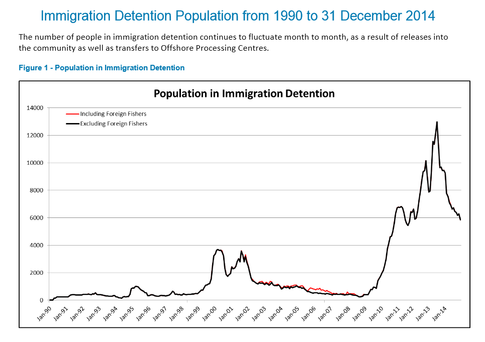 Australian Immigration Detention Population from 1990 to 31 December 2014